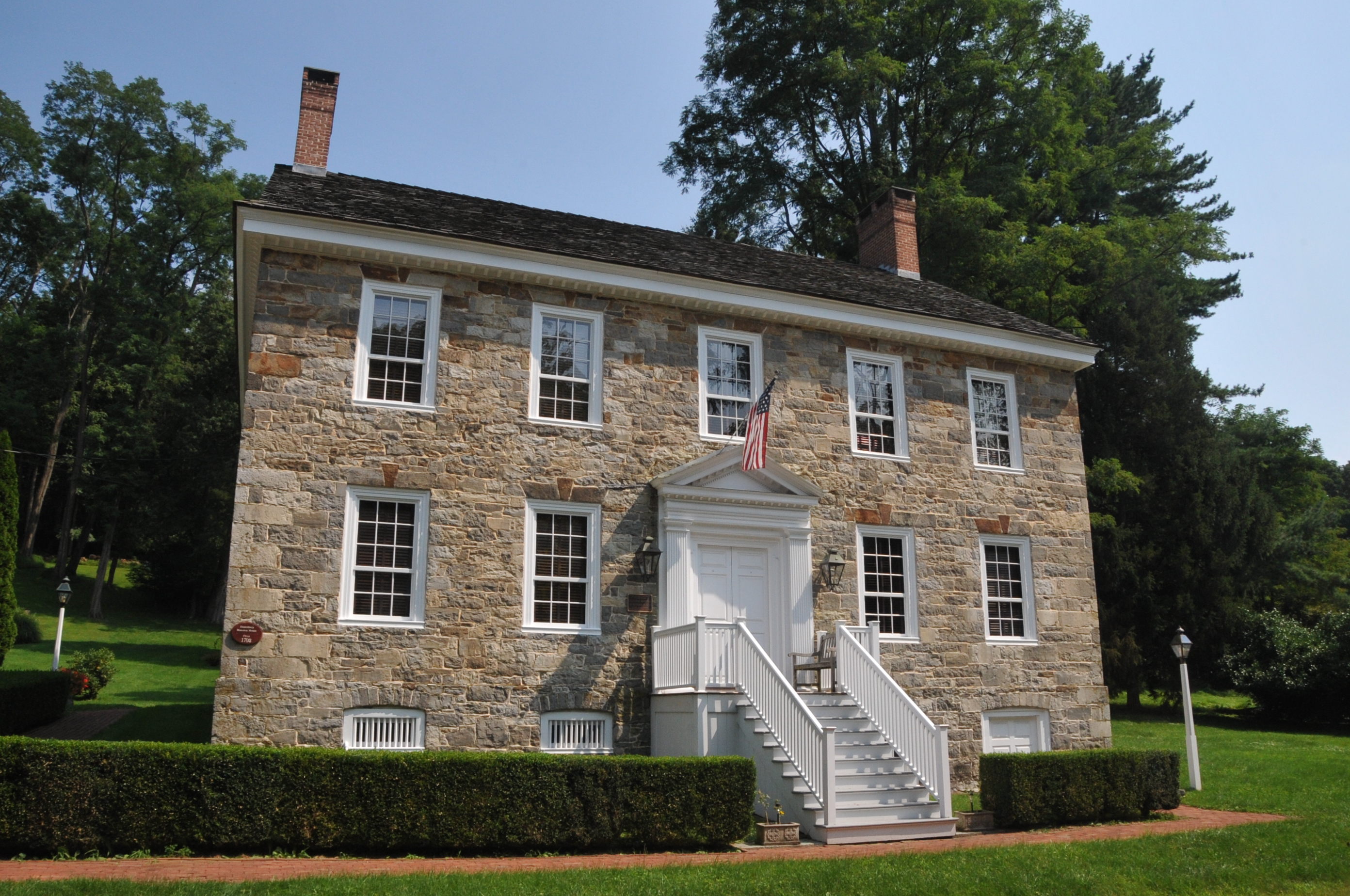 DUSENBERY MANSION HOUSE; CIRCA 1872; 40 Musconetcong River Road. Contributing property #10 of the New Hampton Historic District.